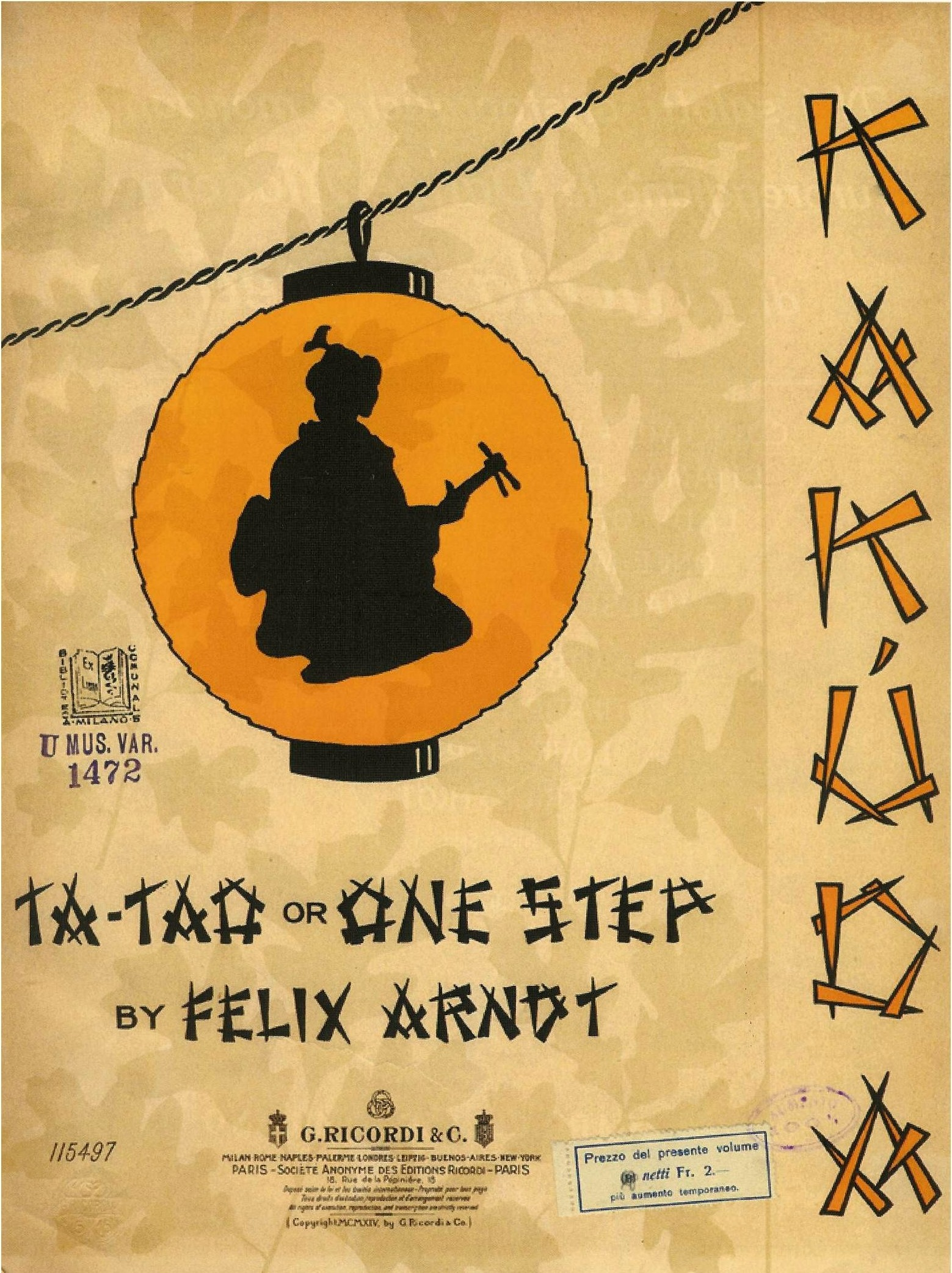 Kakuda, Arndt